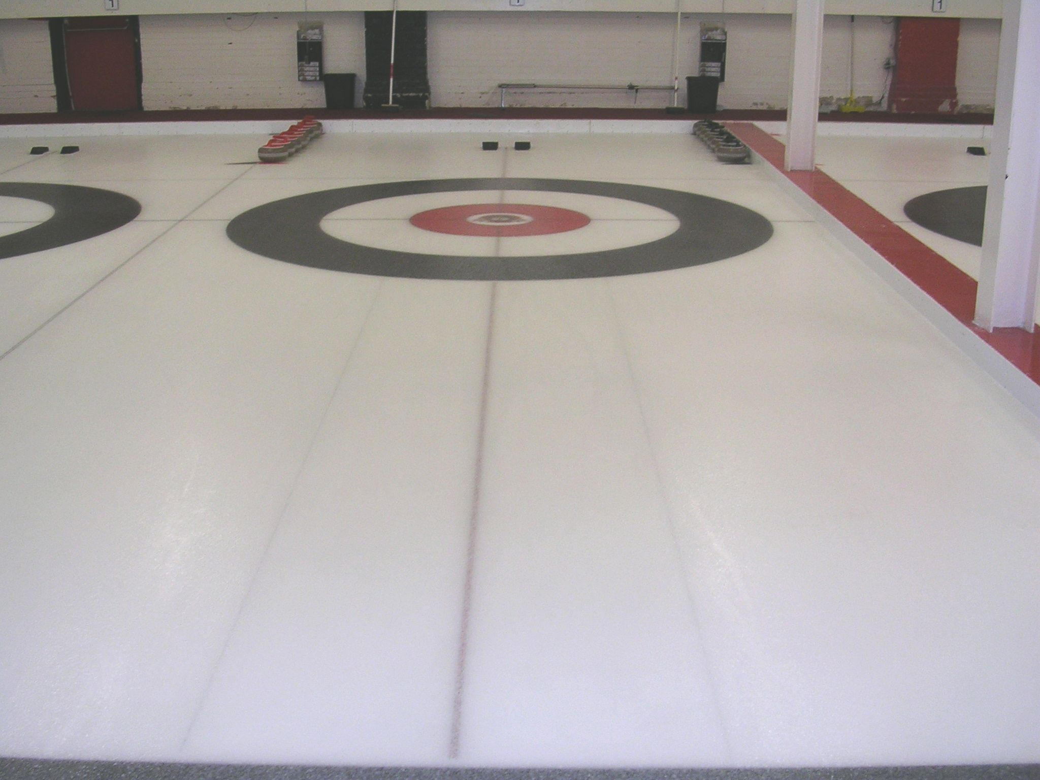 curling sheet - taken by me